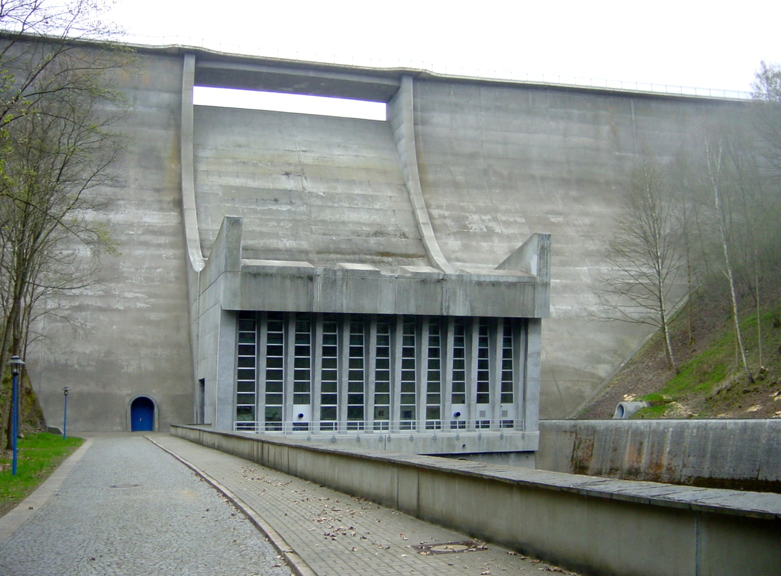 Pöhl dam, Saxony, Germany